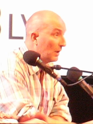 crop of Kit Hesketh-Harvey on Just a Minute